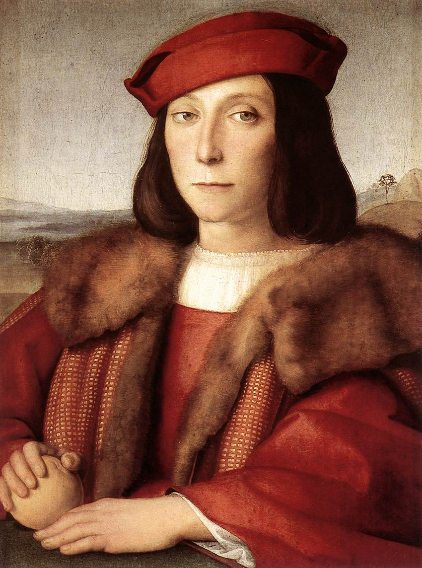 Portrait of Francesco Maria I della Rovere